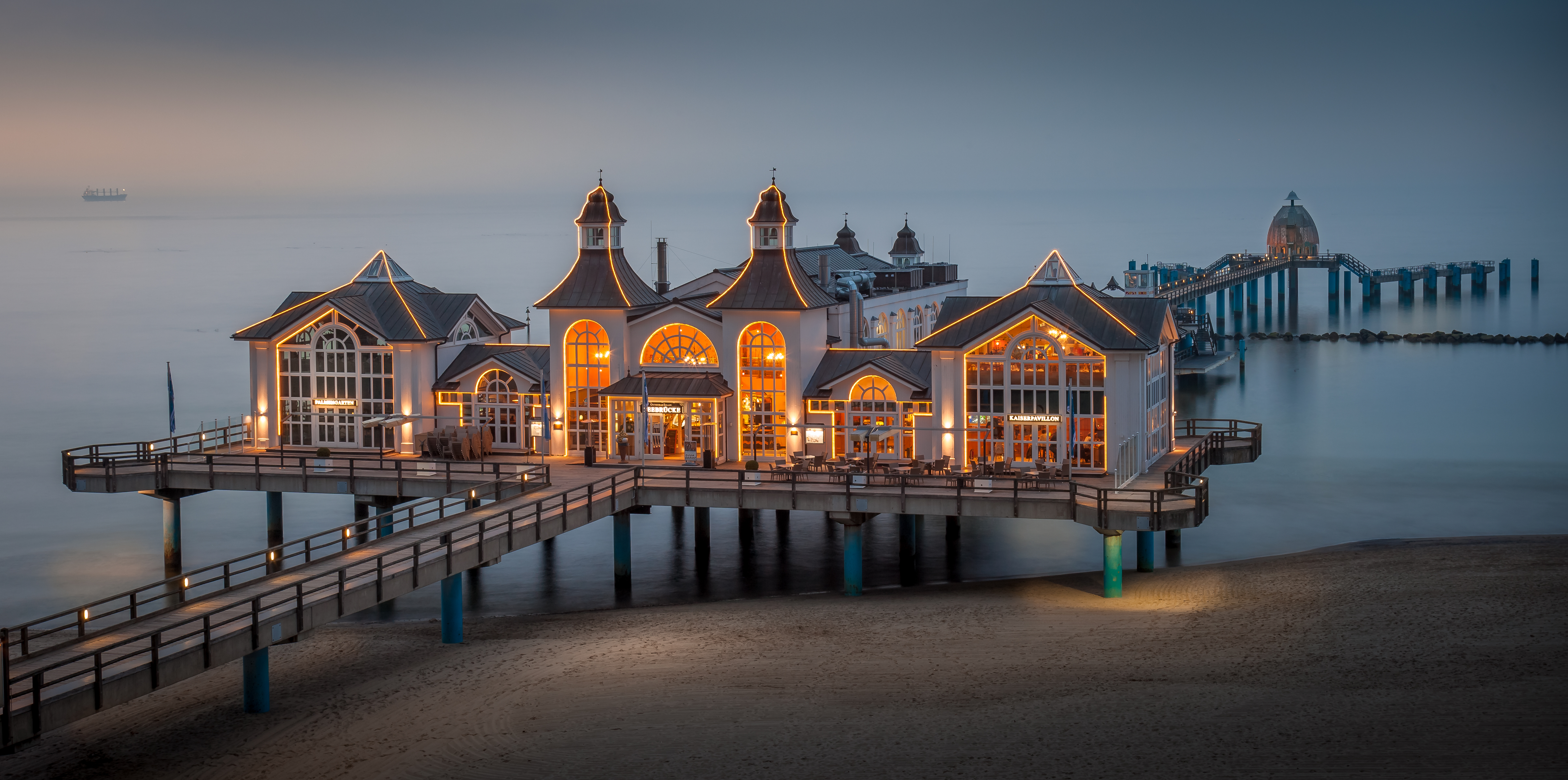 Seabridge Sellin at sunset, Rügen, Mecklenburg-Pomerania, Germany